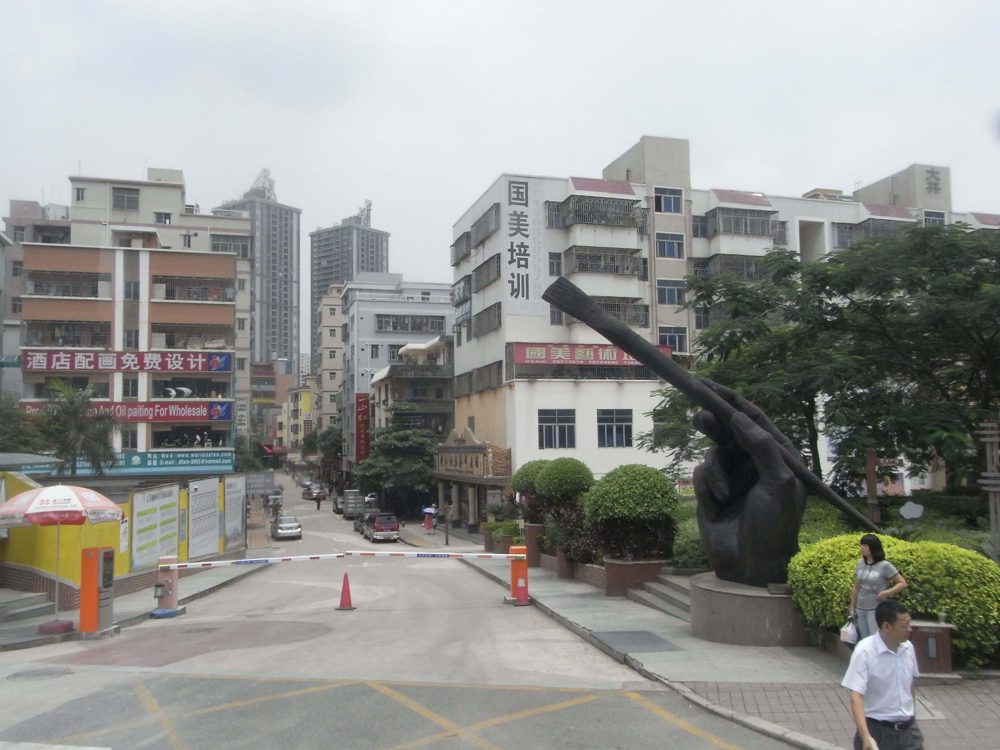 龍崗區布吉街道 大芬村